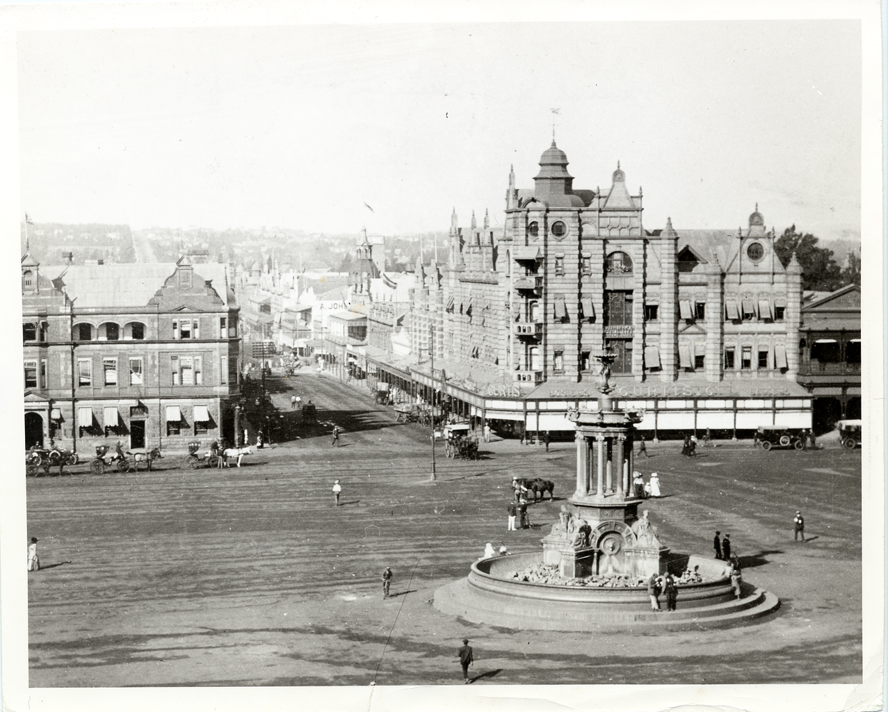 This 1905 photograph shows Church Square in Pretoria, South Africa, looking east. The cast iron fountain, known as the Sammy Marks Fountain, was imported from Ireland by businessman Sammy Marks (1843-1920) and moved from Church Square to the city zoo in 1910. Born in Lithuania, the son of a Jewish tailor, Marks came to South Africa in 1868. He began his career by peddling jewelry and cutlery, but soon became involved in the rapidly developing gold-, diamond-, and coal-mining industries. Behind the fountain is the recently completed Tudor Chambers, then the largest office block in Pretoria, built by George Heys (1852-1939), another prominent South African businessman. Heys was a native of Durban who moved to Pretoria as a young man. He founded the (stage) coach transport company of Heys and Gibson that operated between Kimberley and Pretoria, and later branched out into real estate and investments. The photograph is from the Van der Waal Collection at the Department of Library Services at the University of Pretoria, South Africa. The Van der Waal Collection forms part of an archive of South African architecture assembled by architectural historian Dr. Gerhard-Mark van der Waal. Buildings; Church Square; Fountains; Sammy Marks Fountain